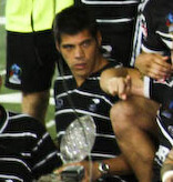 Manu holding up the World Cup